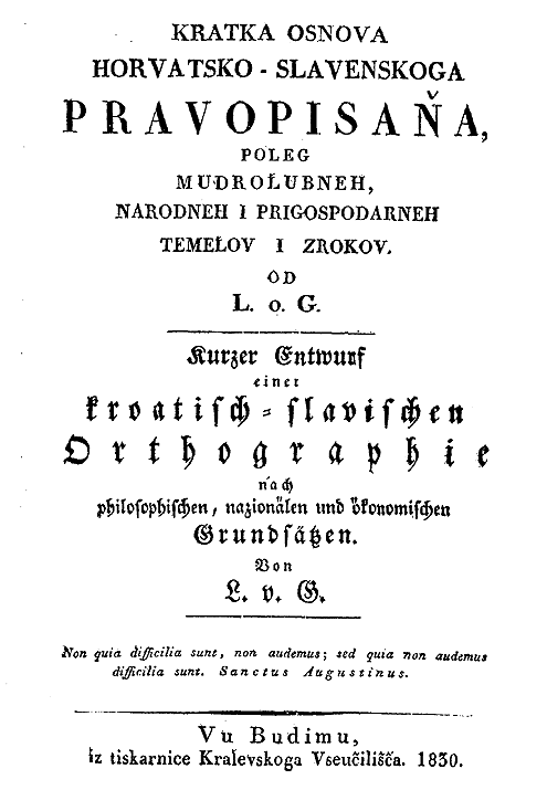 Old Croatian othography textbook, title page.